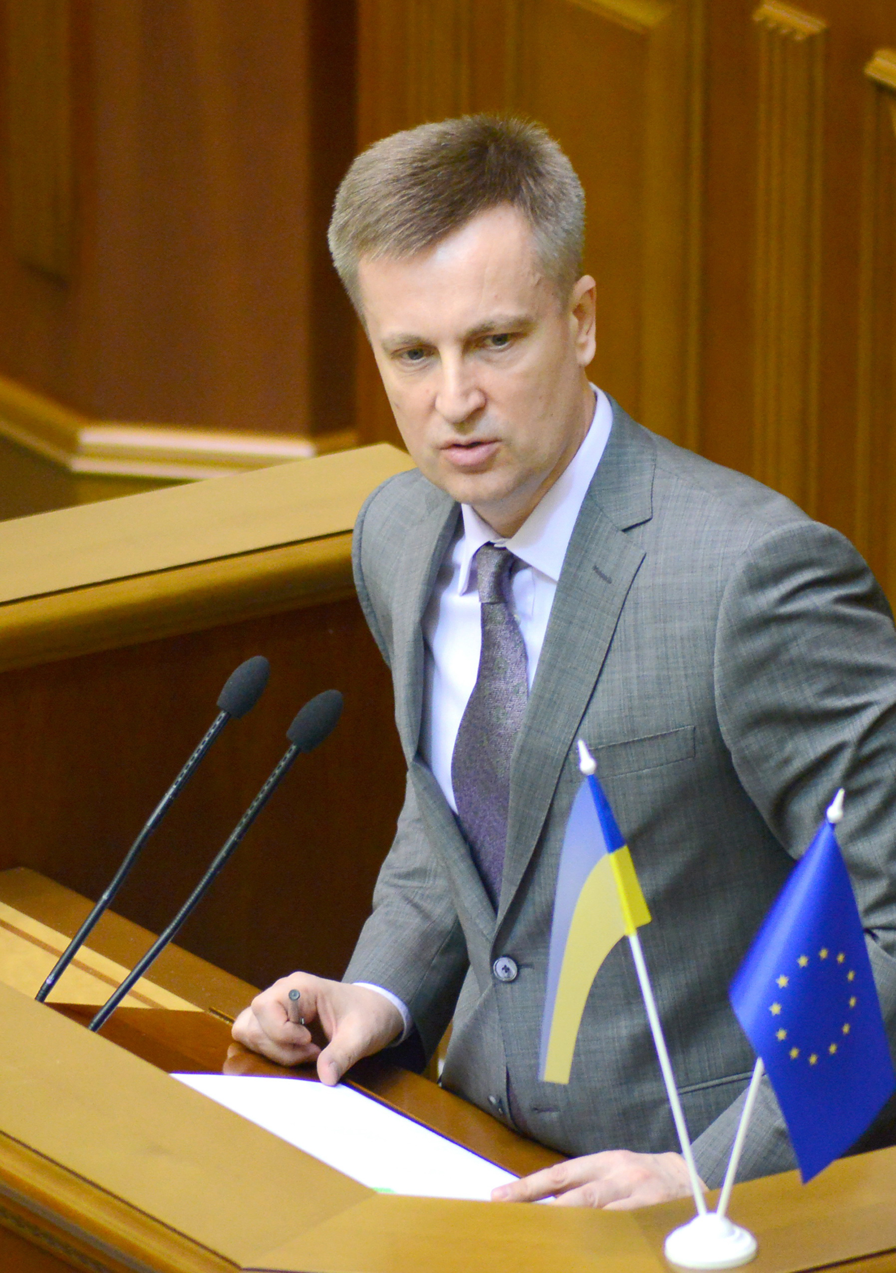 Valentyn Nalyvaichenko